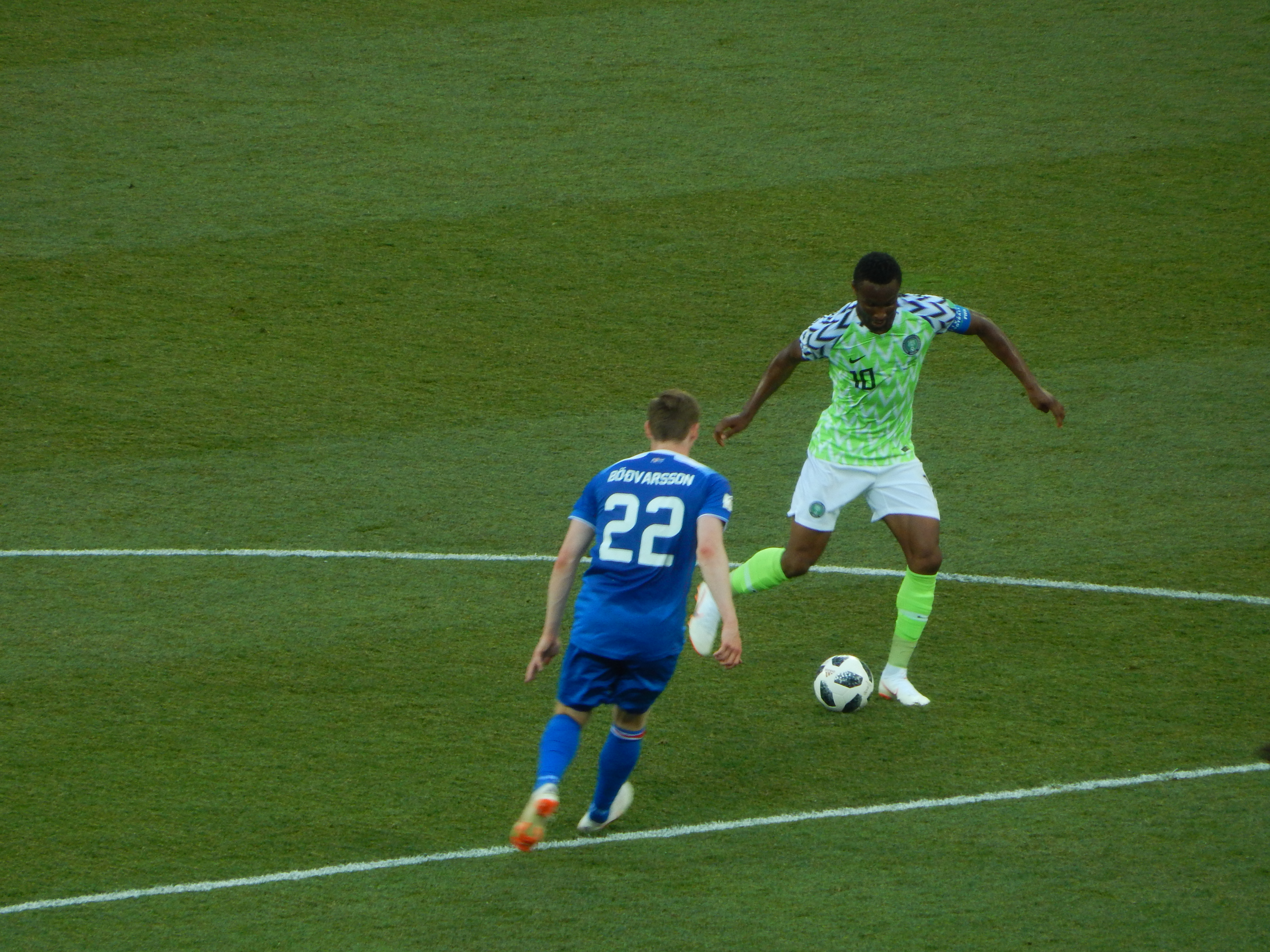 FIFA World Cup 2018, Group D, Nigeria vs. Iceland